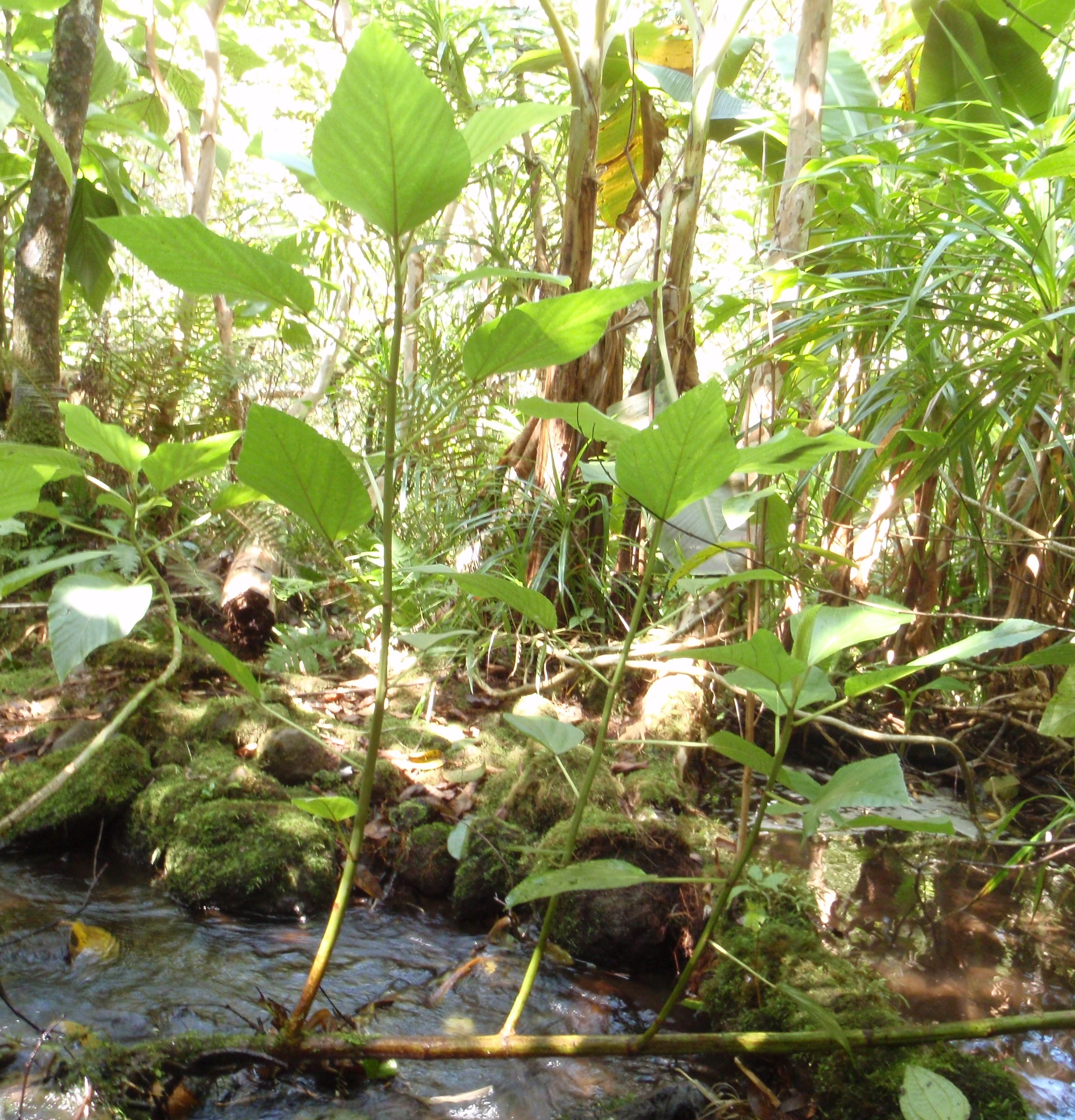 Touchardia latifolia. Olona. Endemic to Hawaii and used for cordage